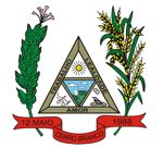 Coat of arms of the city of Cerro Branco, Rio Grande do Sul, Brazil.